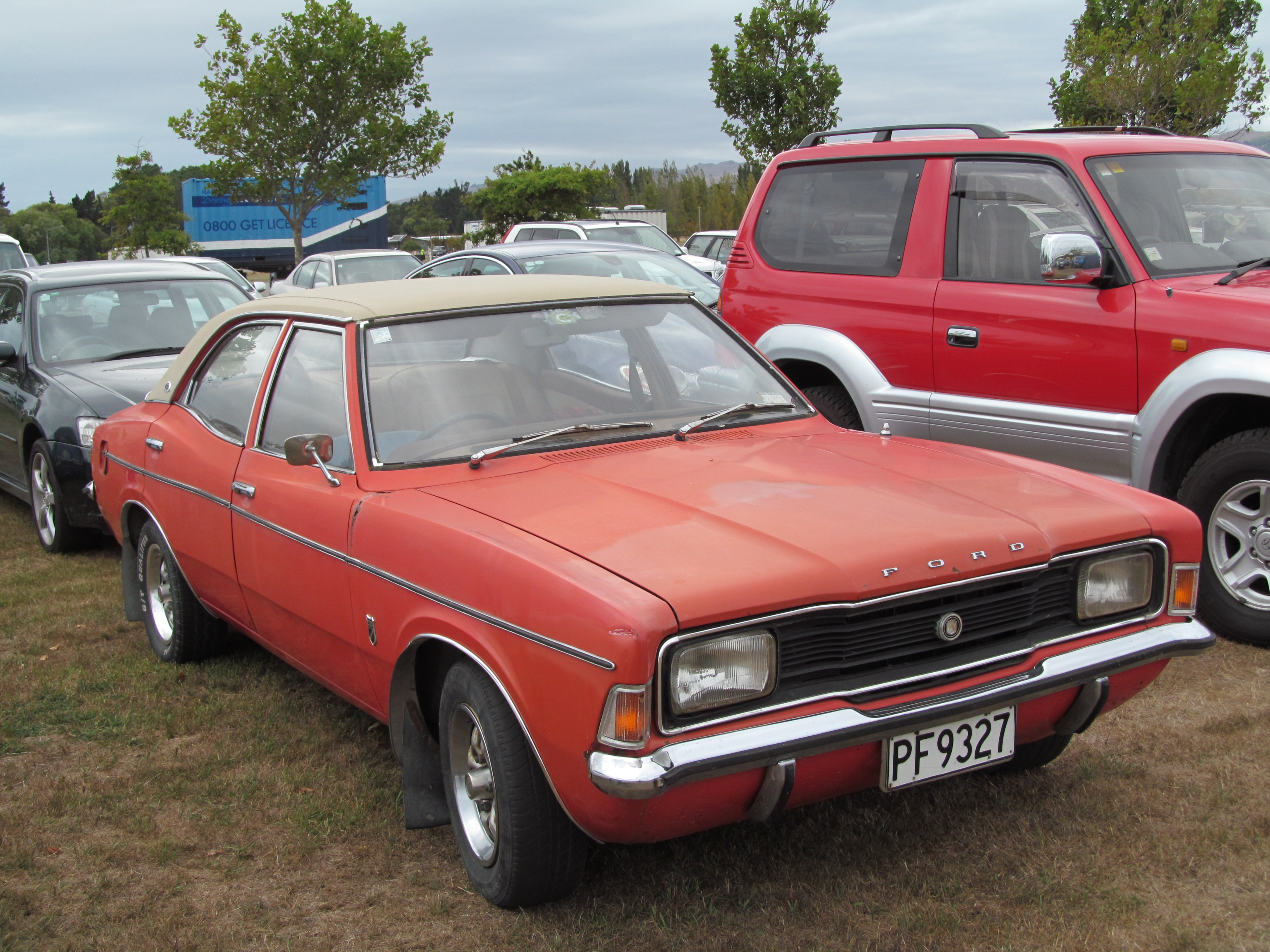 PF9327 This appears to be an import, as it was first registered here in 1990. CarJam just lists the country it was imported from as 'Other'. It looks like a Kiwi 2000E, but it could be a British import... It has been unlicensed since 2006, but was clearly driven to the show on the day!